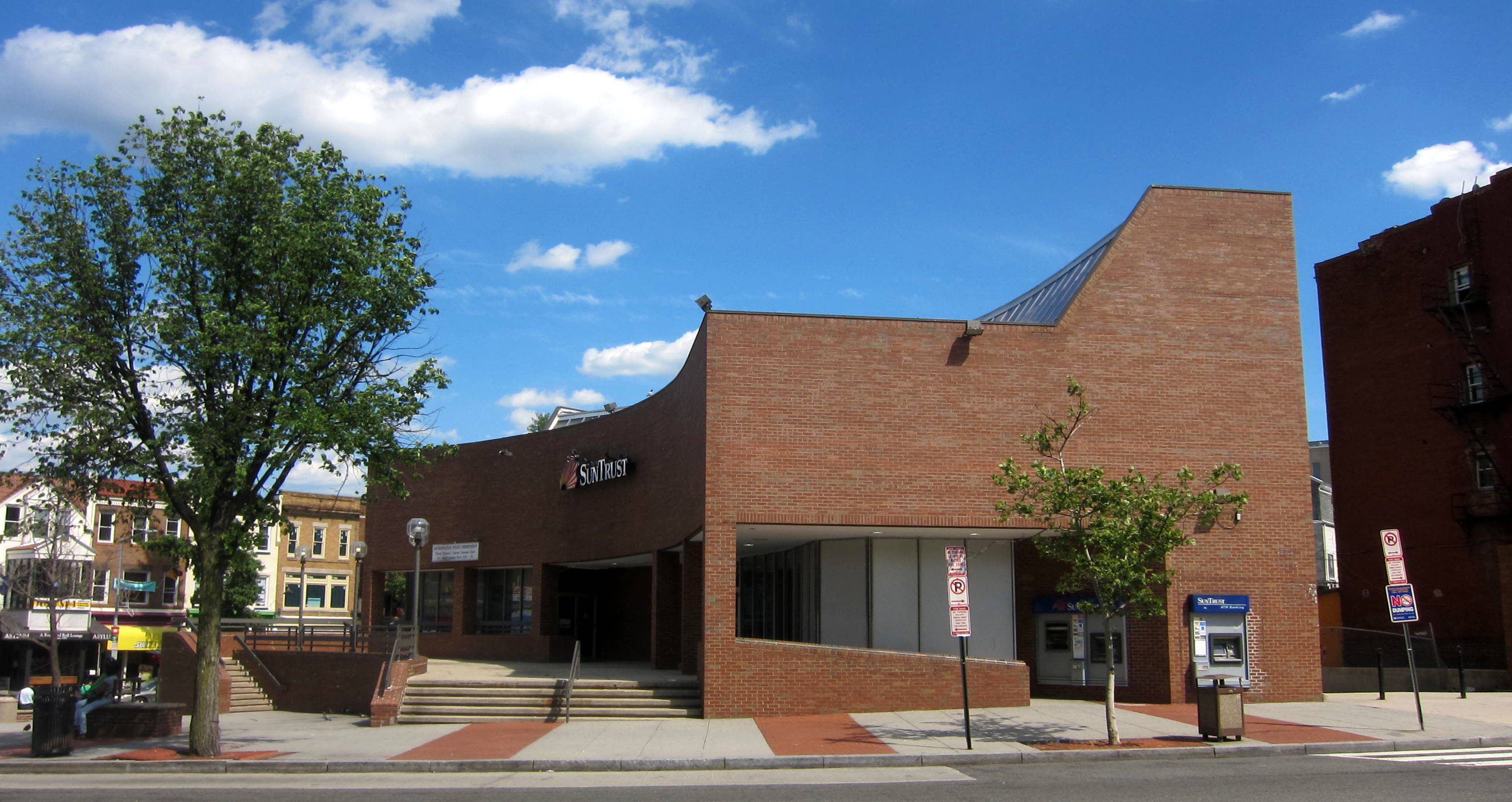 A SunTrust branch located at 1800 Columbia Road, N.W., in the Adams Morgan neighborhood of Washington, D.C. The site is the former location of the Knickerbocker Theatre, which collapsed on January 28, 1922, during the Knickerbocker Storm.